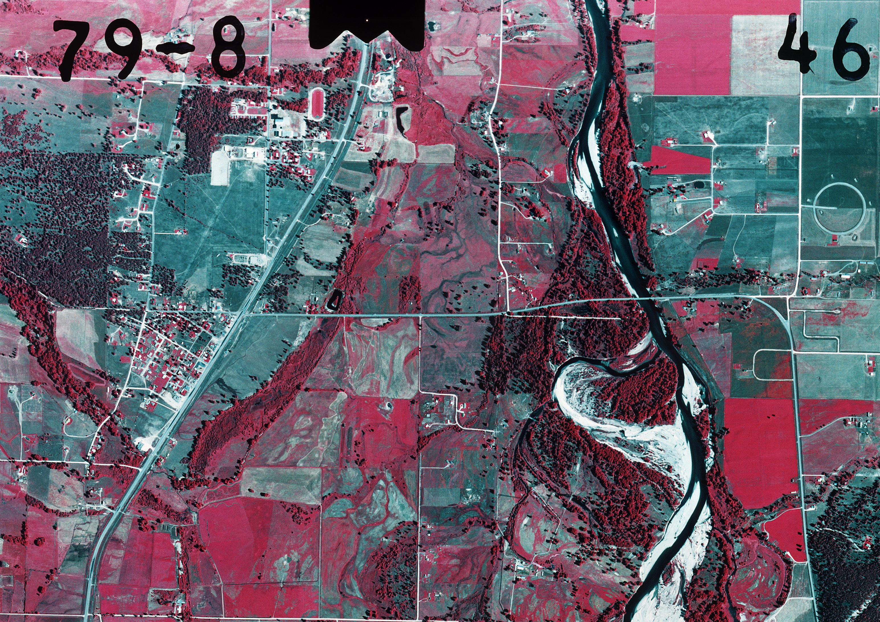 High-resolution scan of Florence, MT from USGS aerial survey in 1982. This is a small crop of the original photograph, but is at 100% resolution.